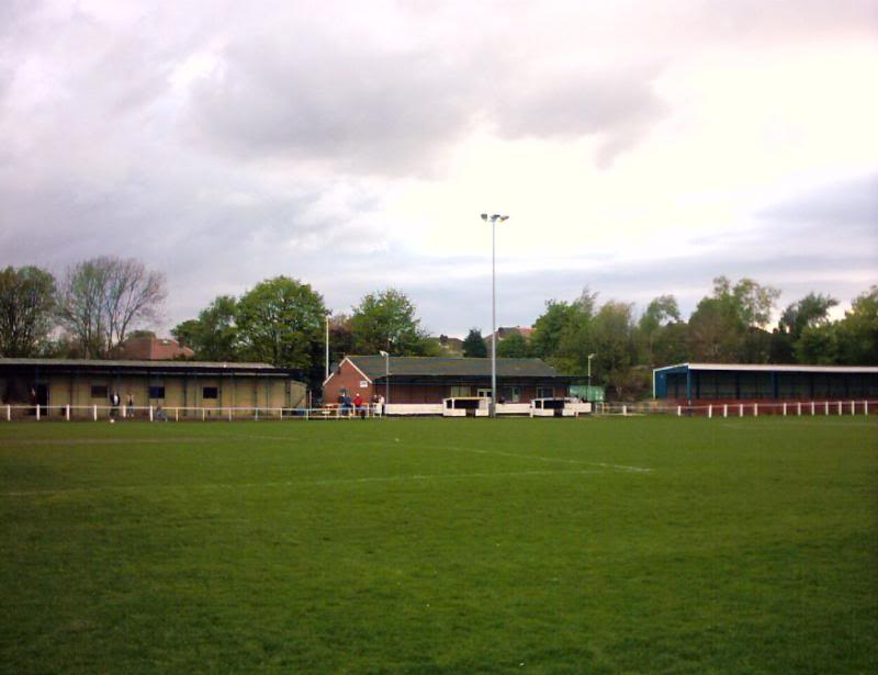 Yorkshire ammers cross pitch shot featuring left to right tea bar toilets and clubhouse with over hang changing room and dugouts with overhang and seated main stand with covered walkway at back